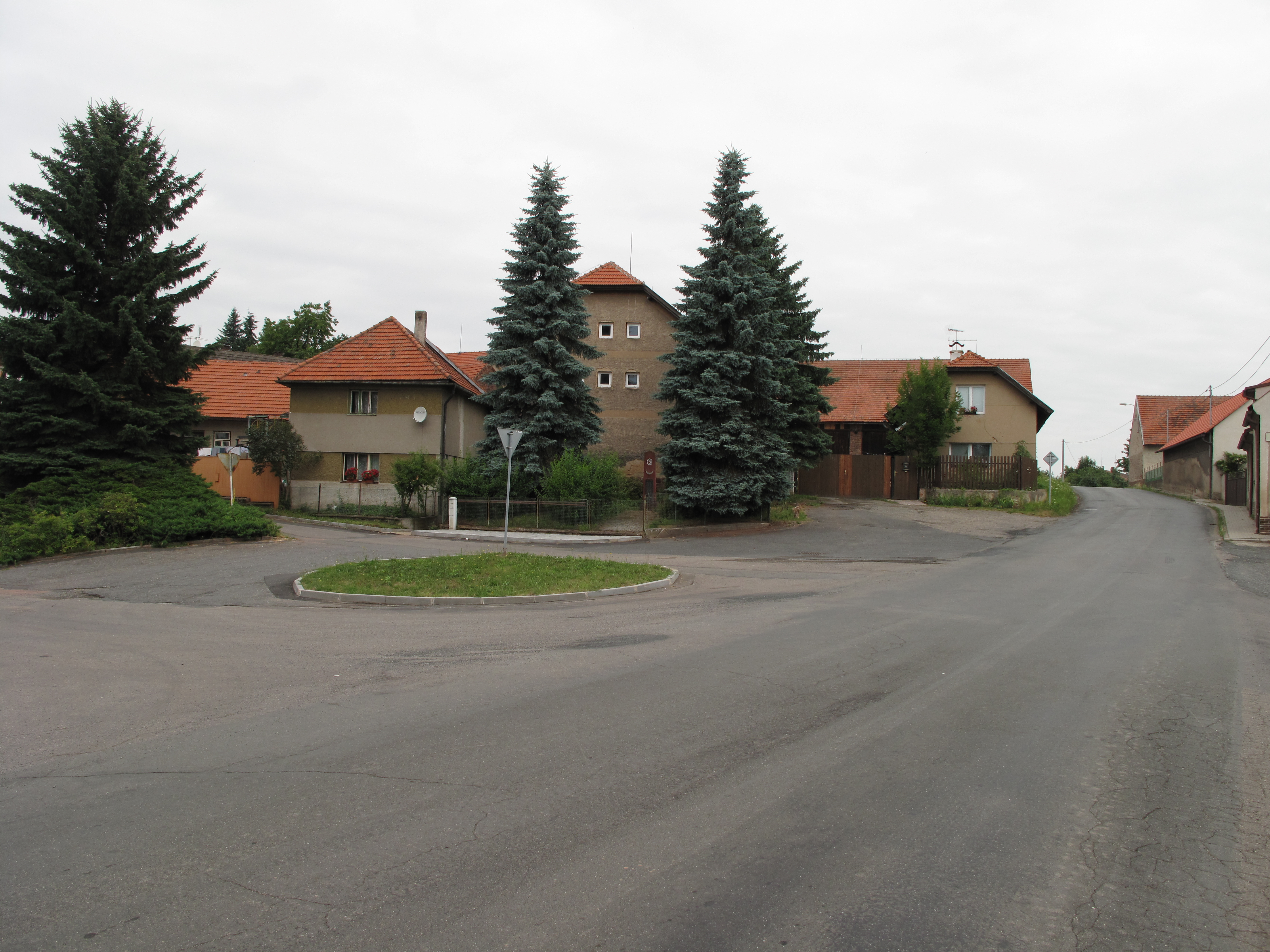 This photograph was taken within the scope of the second year of the 'Czech Municipalities Photographs' grant.